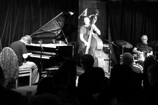 Bill Carrothers performing at the Artists' Quarter in St. Paul, Minnesota in October, 2013 with Billy Peterson and Kenny Horst.